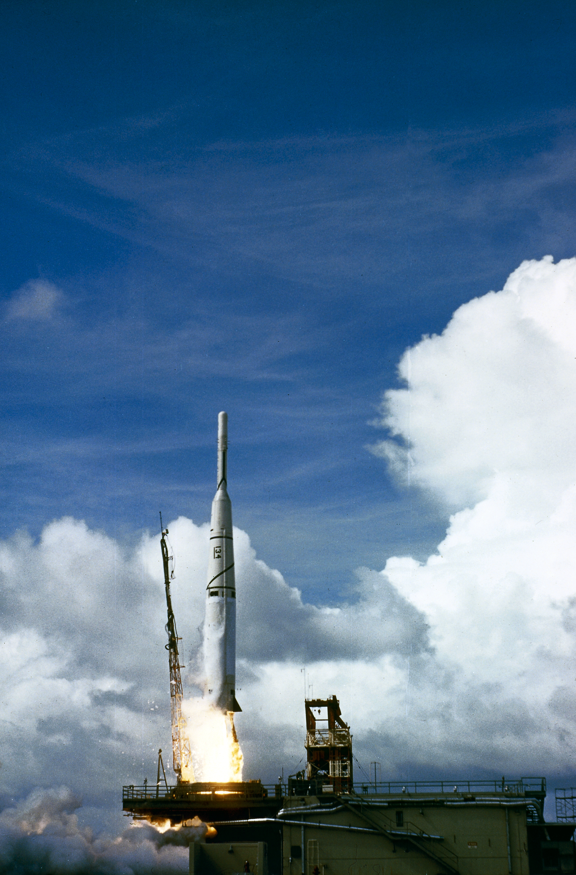 Blast-off of the Thor Able III rocket with satellite Explorer 6